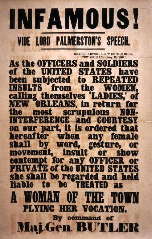 General Order No. 28, by command of Maj.-Gen. Benjamin Butler, May 15, 1862, The Historic New Orleans Collection